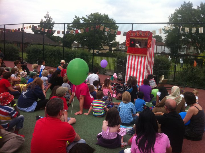 Families watching punch & Judy a fete